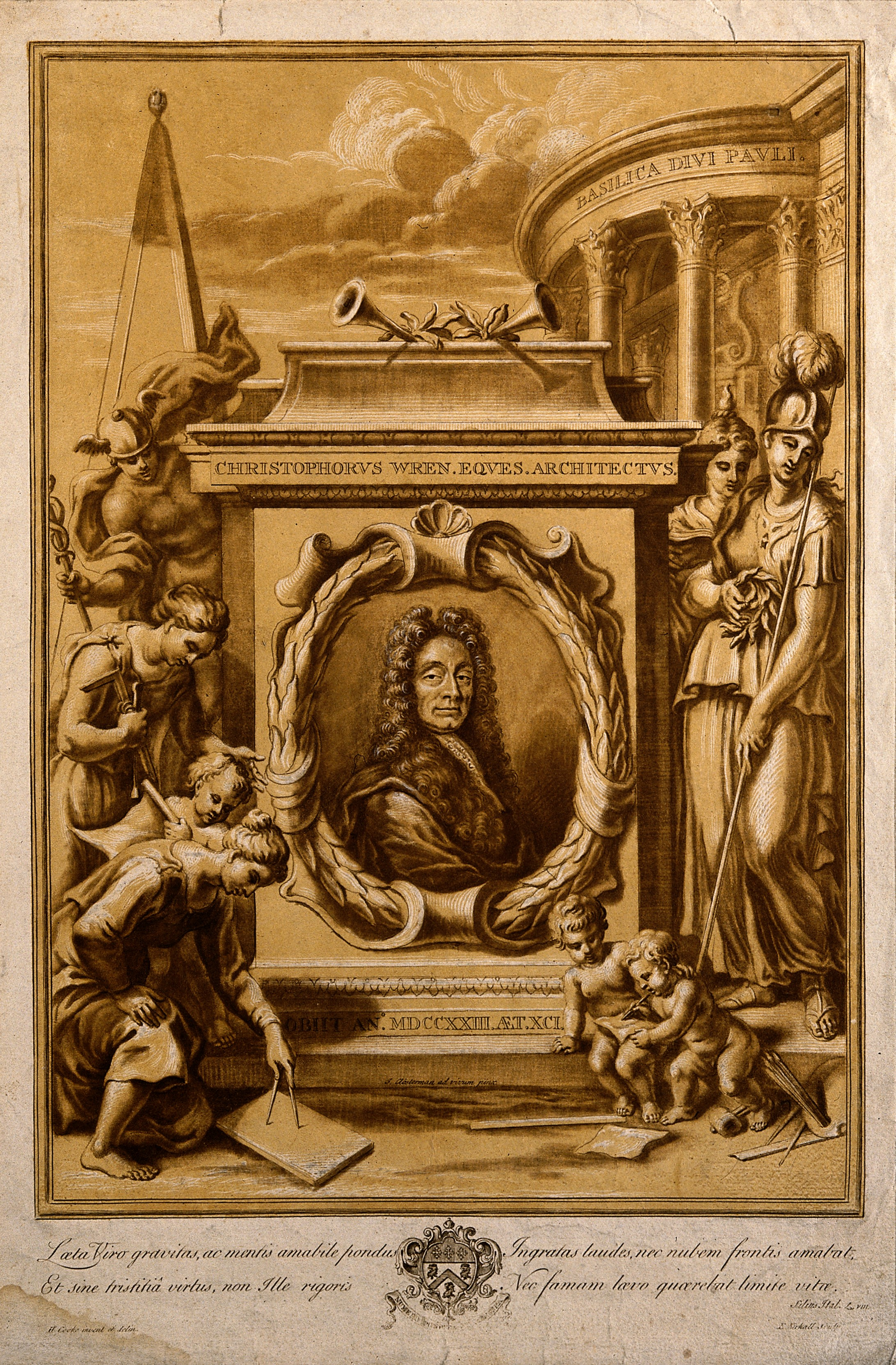 Sir Christopher Wren. Chiaroscuro woodcut by E. Kirkall after H. Cooke after J. Closterman, 1695. Iconographic Collections Keywords: portrait prints; Christopher Wren